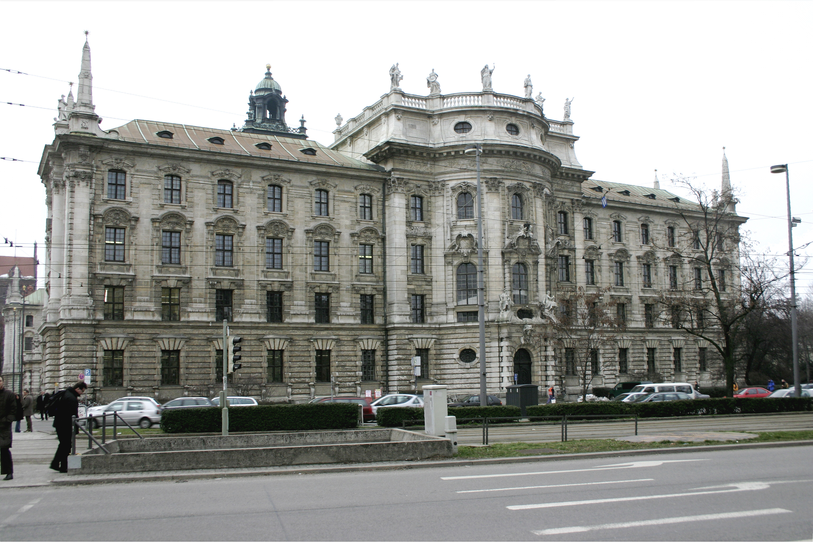 Munich – Justizpalast